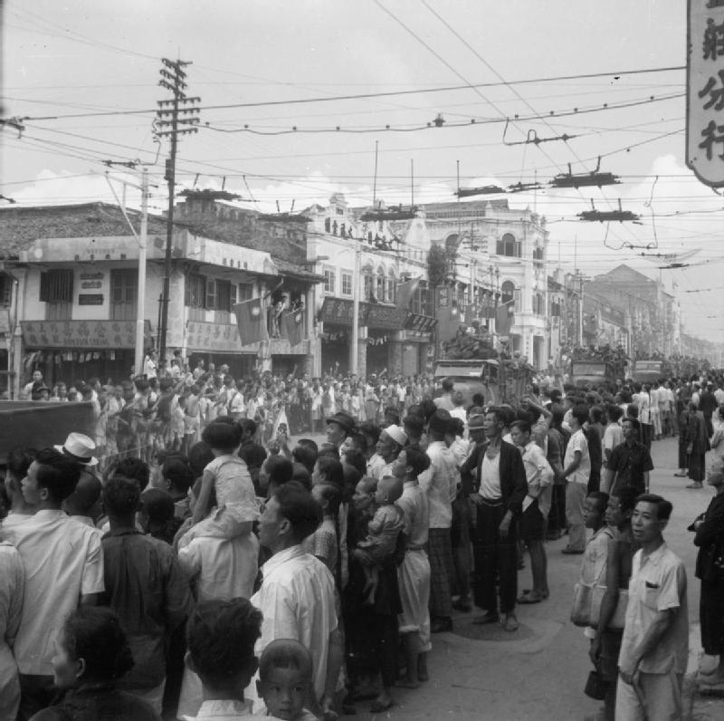 British Reoccupation of Singapore, 1945 Cheering crowds welcome the arrival of troops from the 5th Indian Division as they move through Singapore in lorries.